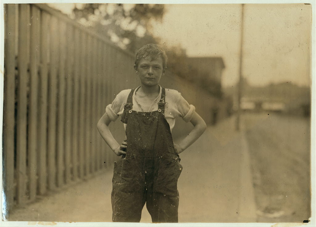 Young worker in Merchants Mill. Location: Fall River, Massachusetts